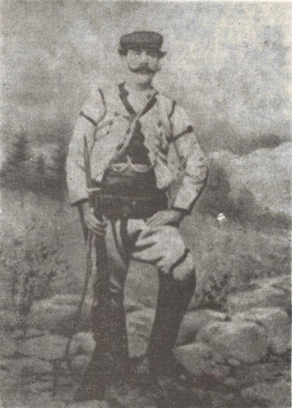 Macedonian revolutionary Pere Toshev in Radovish